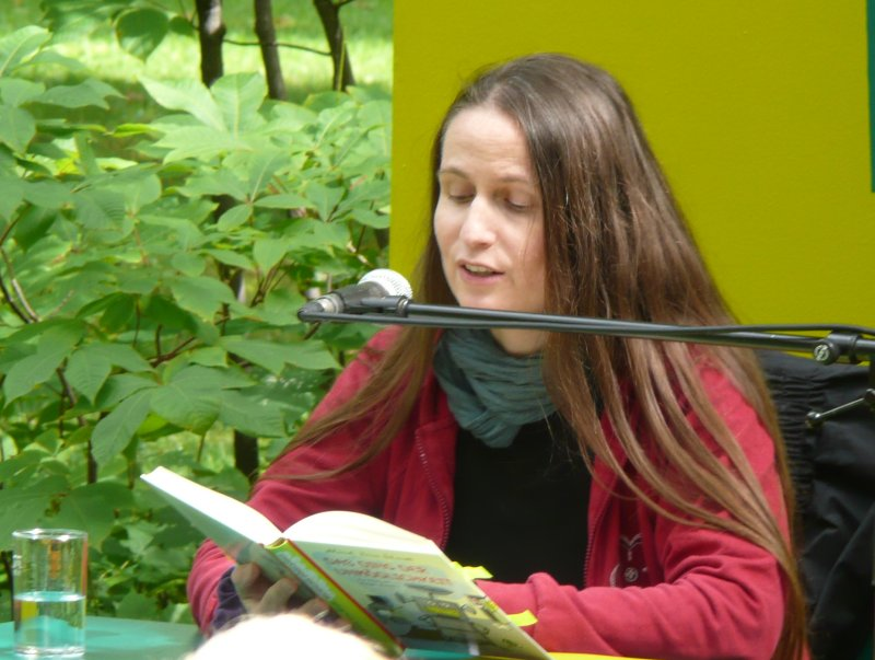 german author of books for children Almut Tina Schmidt reading at the Erlanger Poetenfest 2010